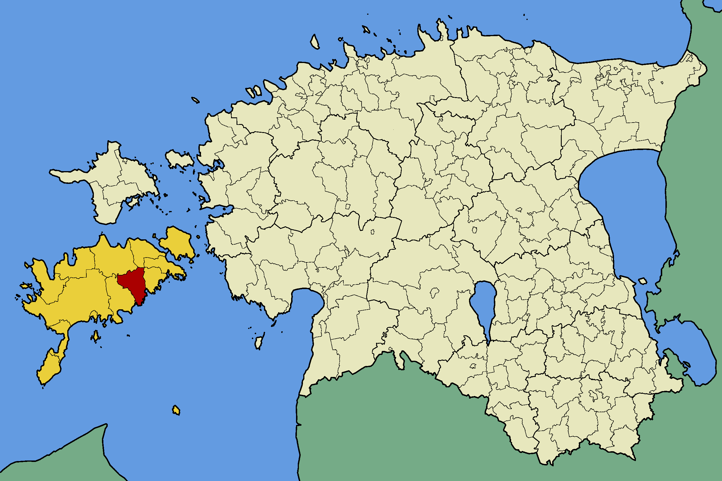 Map of Estonia with borders of municipalities (parishes). Saare county and Valjala municipality emphasized.